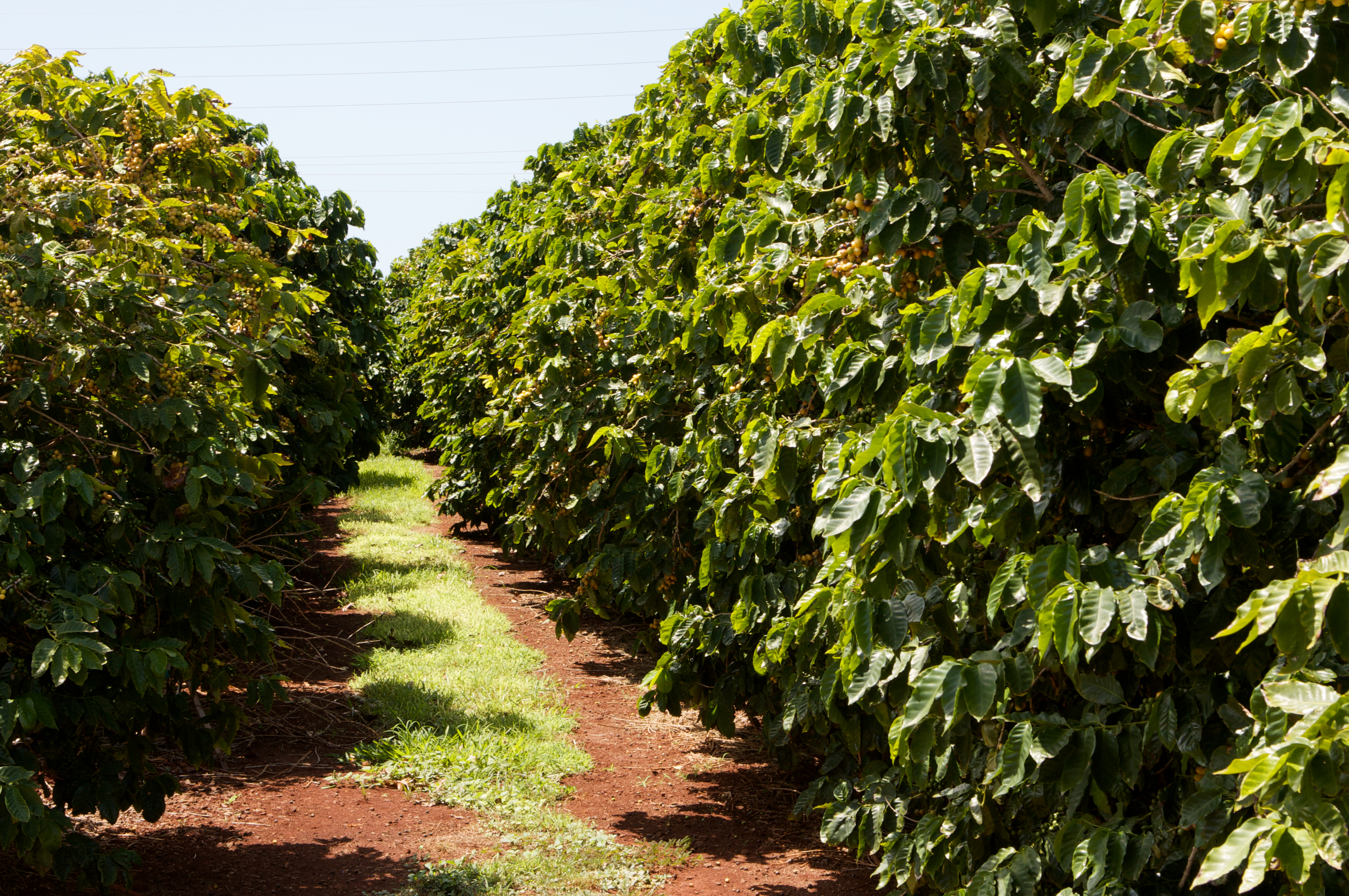 Coffee plantation, Kauaʻi, Hawaii, USA